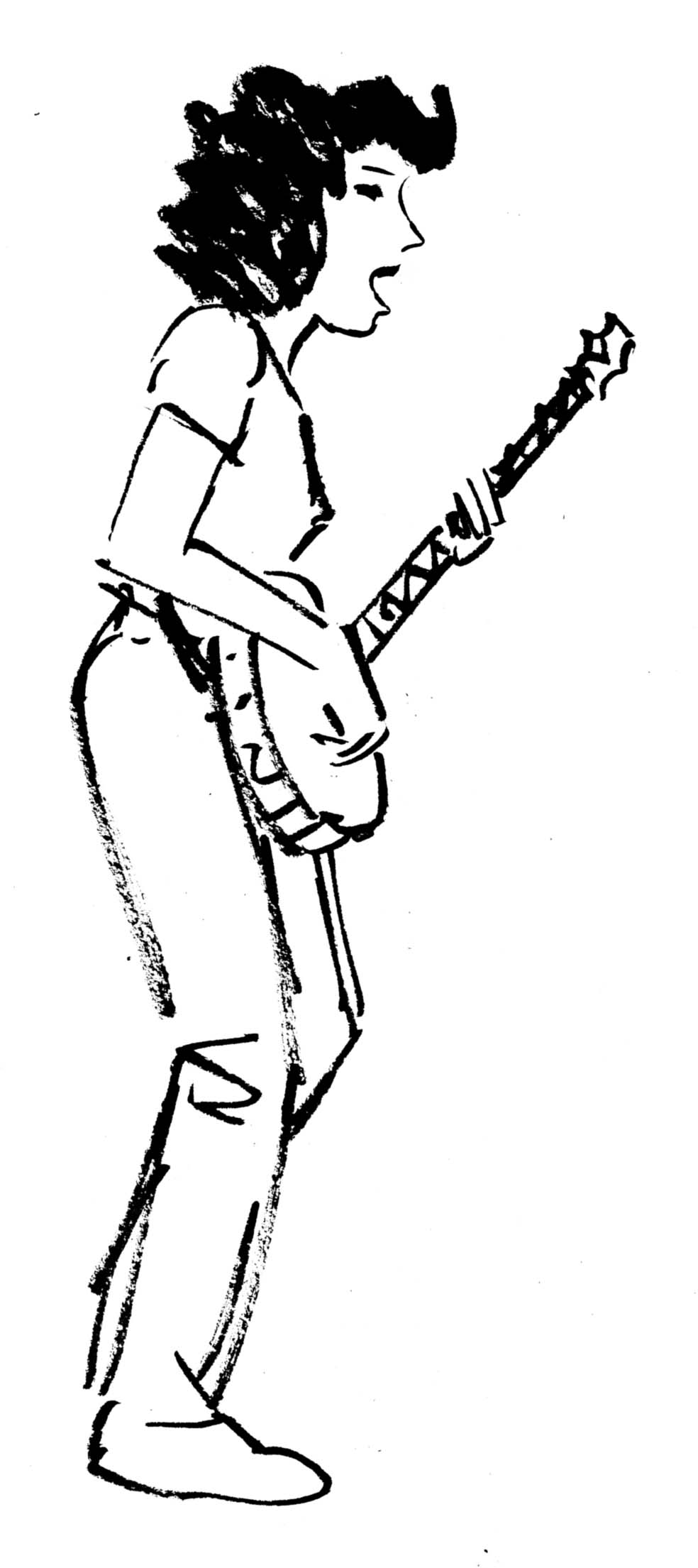 Cynthia Sayer, croquis au Festival Jazz in Marciac, France